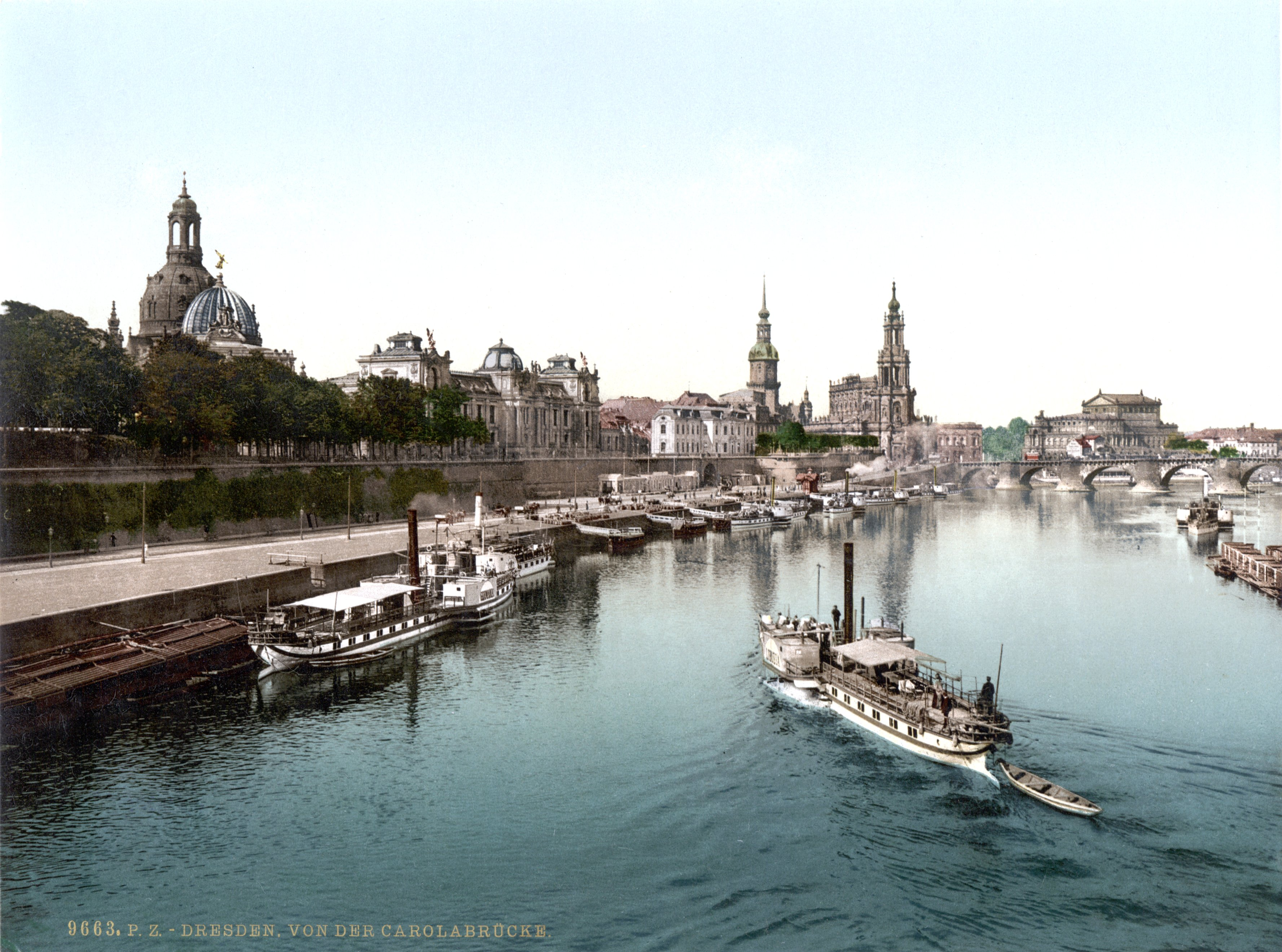 Dresden (Saxony, Germany) - view from Carolabrücke to Terrassenufer